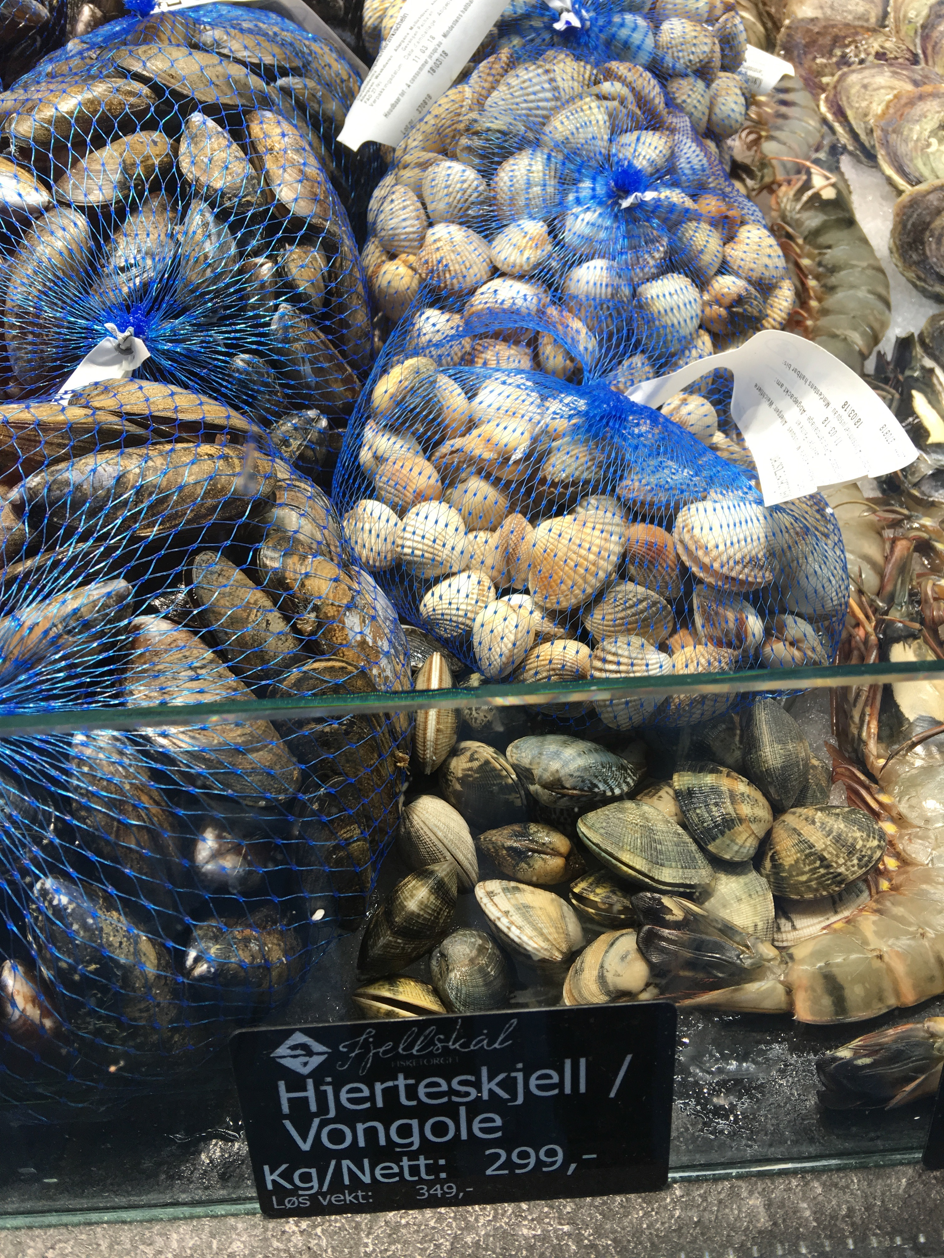 Fiskebryggen, Mathallen, Fishmarket, Bergen, Norway 2018-03-16. blue mussels (Mytilus edulis, blåskjell), Cerastoderma edule (Cardiidae, vongole, hjerteskjell), etc. displayed for sale at Fjellskål sea food store